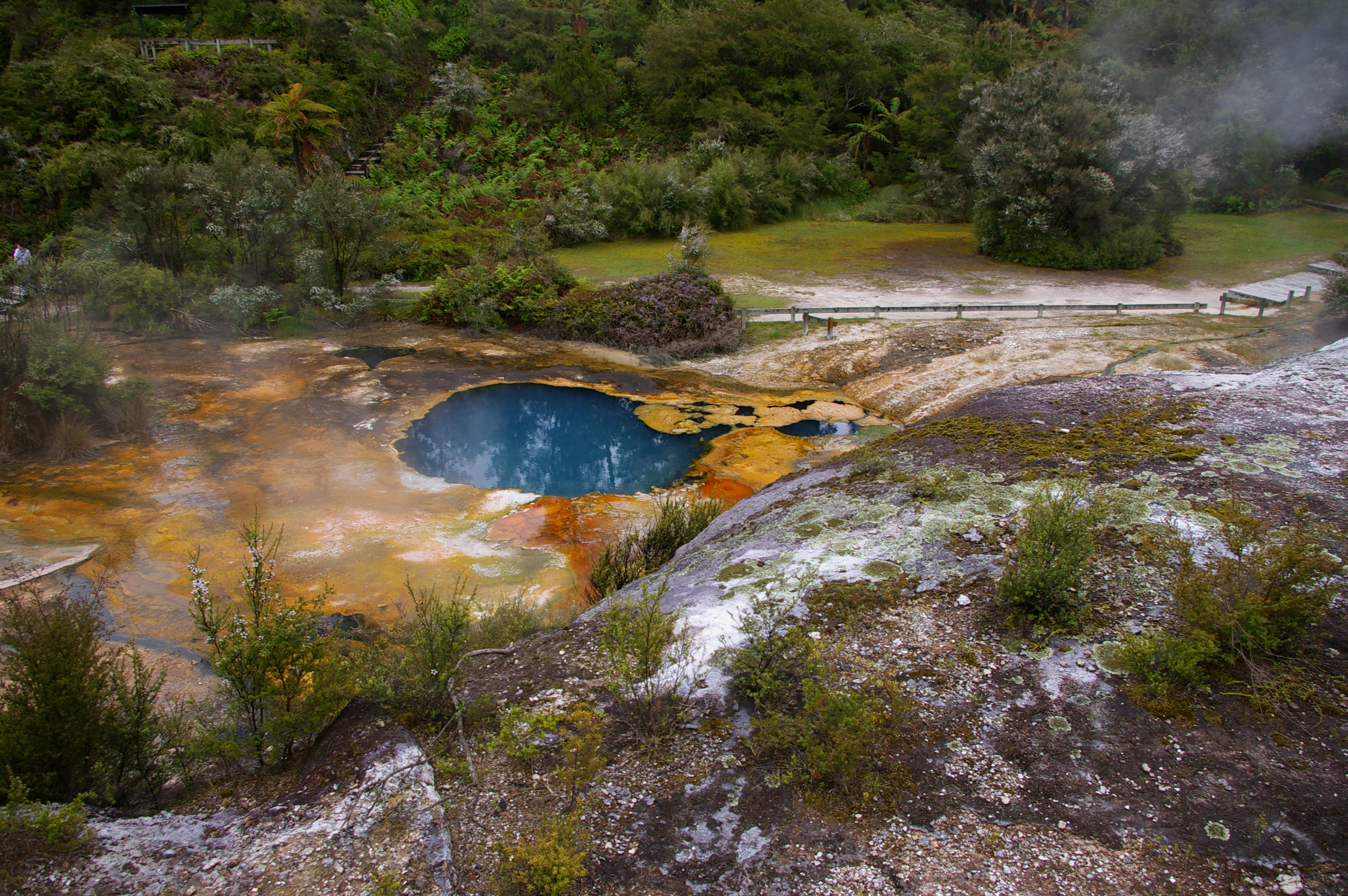 Took by my own